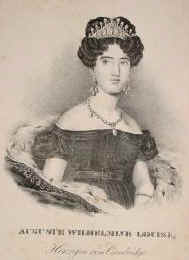 Portrait of Princess Augusta, Duchess of Cambridge